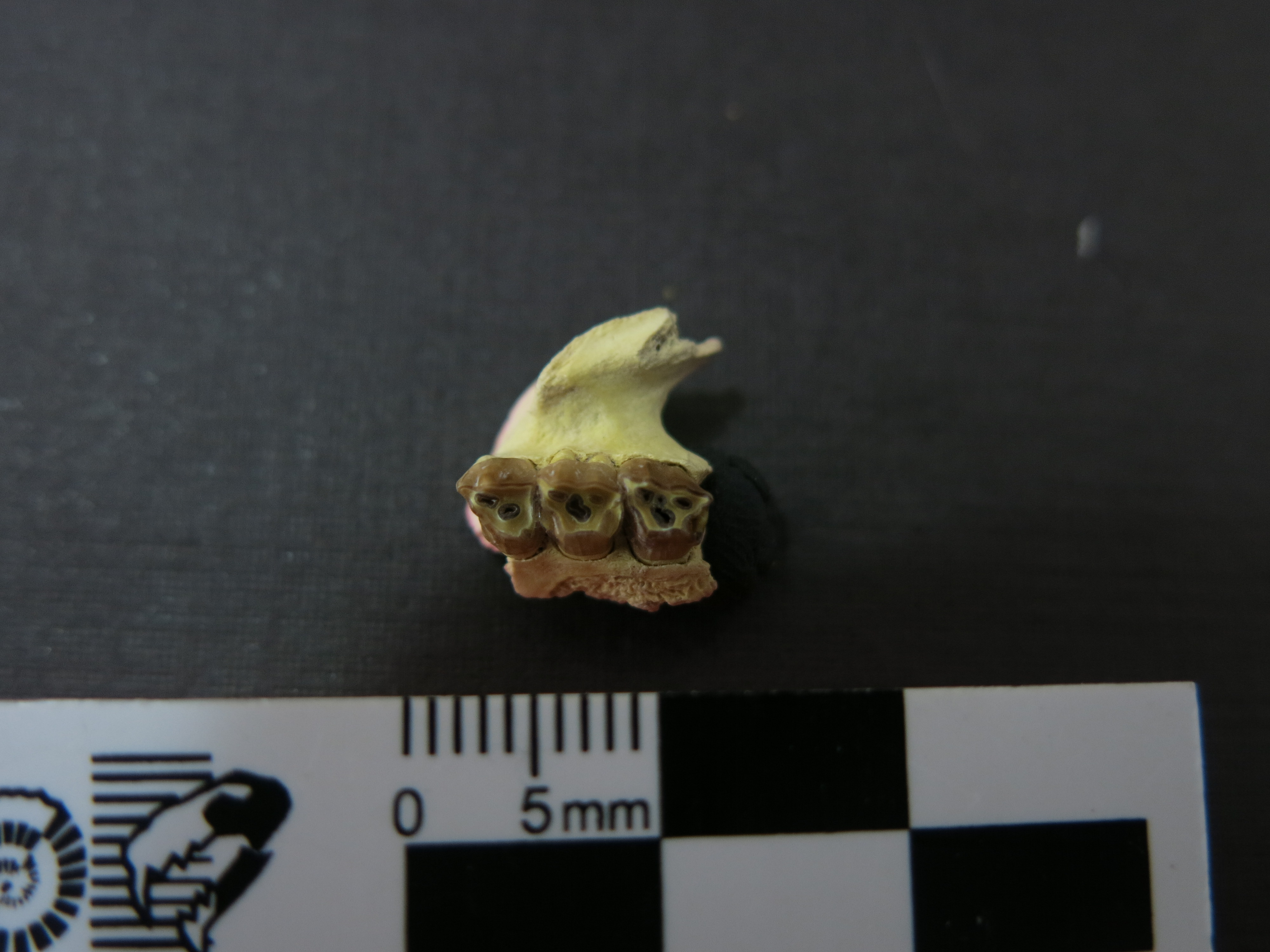 Notopithecus upper molars